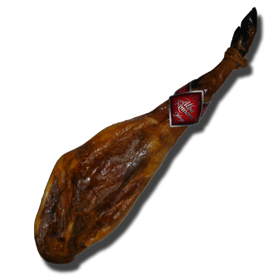 spanish ham iberian